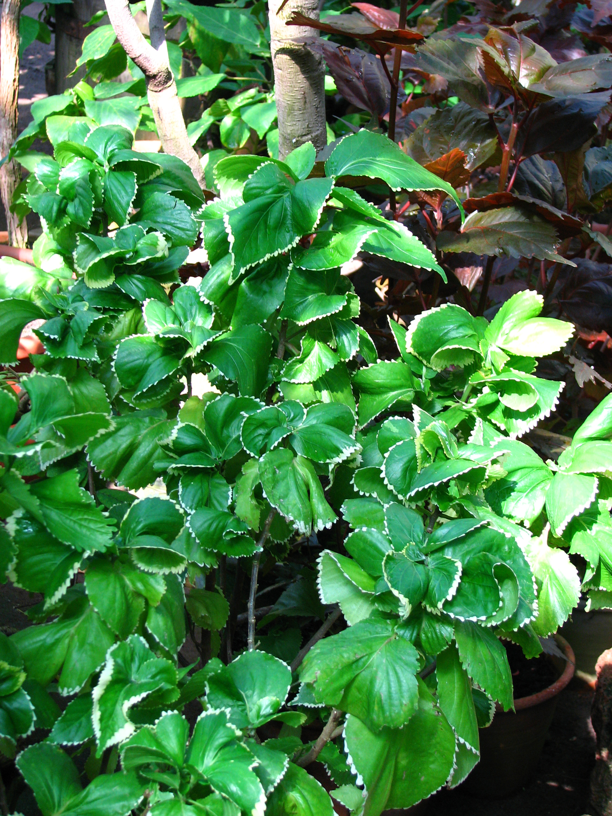 Greenhouses of the Botanical garden (Saint Petersburg). Acalypha wilkesiana 'godseffiana'